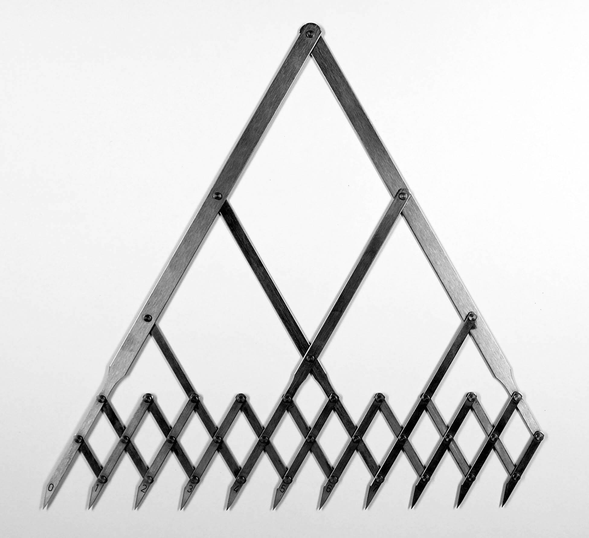 Variable scale (extended, after the principle of the nuremberg scissor) (de: Streckenteiler nach dem Prinzip der Nürnberger Schere). Used to measured distances of individual scales e.g. in maps or technical drawings.